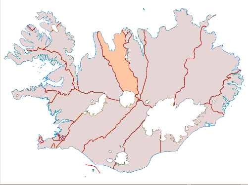 A map of the county Skagafjarðarsýsla in Iceland. Based on a map from the National Land Survey of Iceland. No copyright protedtion on the original map. "Á þessari síðu eru sett fram nokkur kort sem heimilt er að nota í ýmsum tilgangi, án sérstaks leyfis frá stofnuninni. Fleiri kort munu bætast við á næstunni. Smelltu á kortið og þú færð upp stærri mynd.